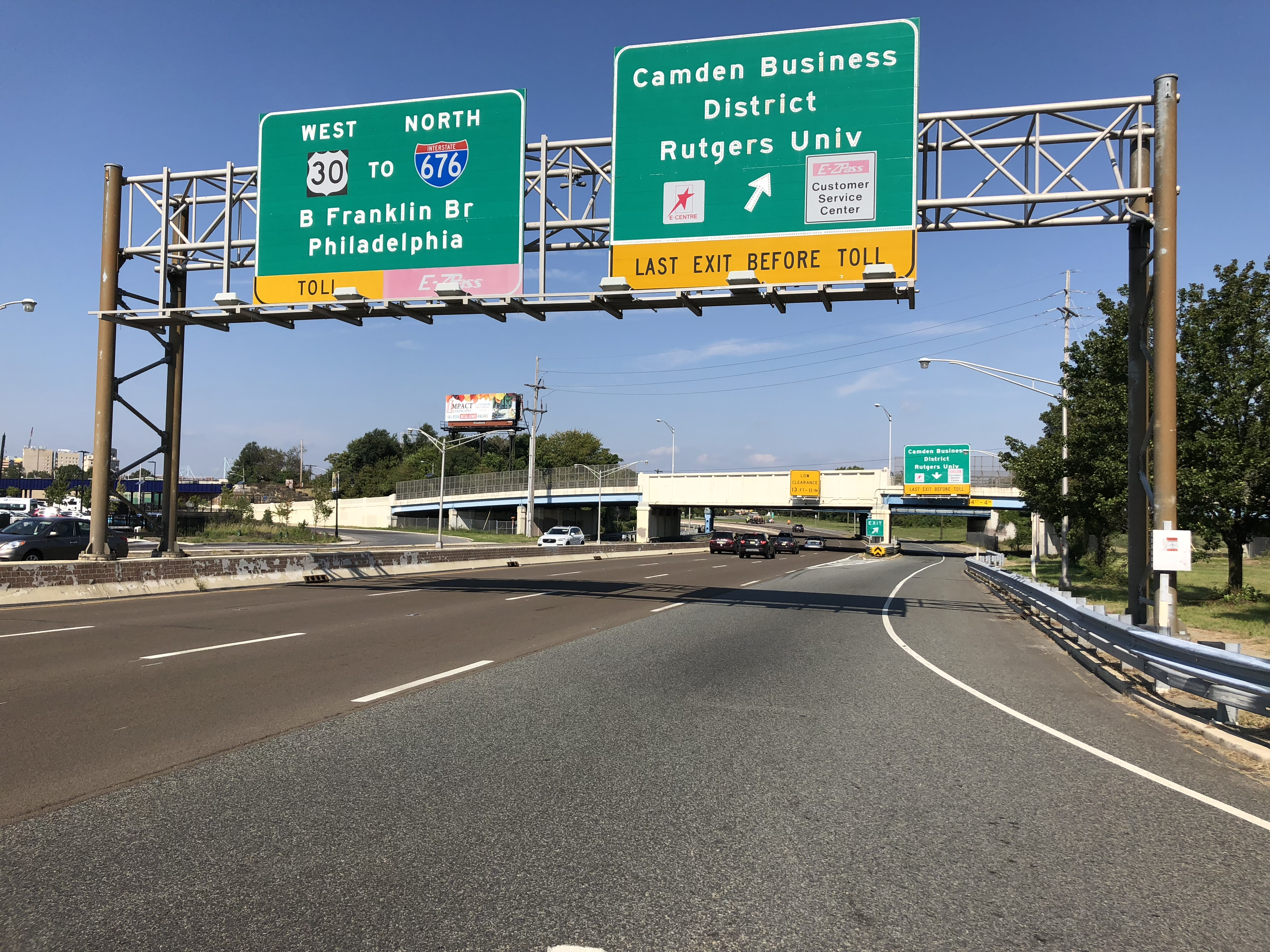 View west along U.S. Route 30 (Admiral Wilson Boulevard) at the exit for Camden Business District/Rutgers University in Camden, Camden County, New Jersey